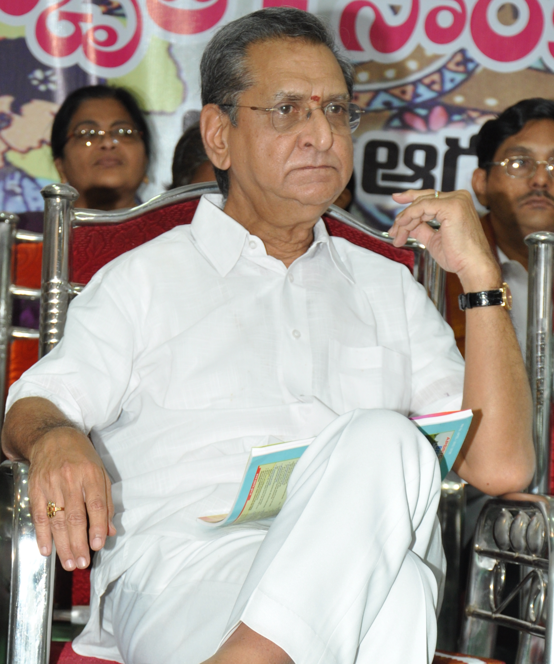 2nd world telugu writers' conference